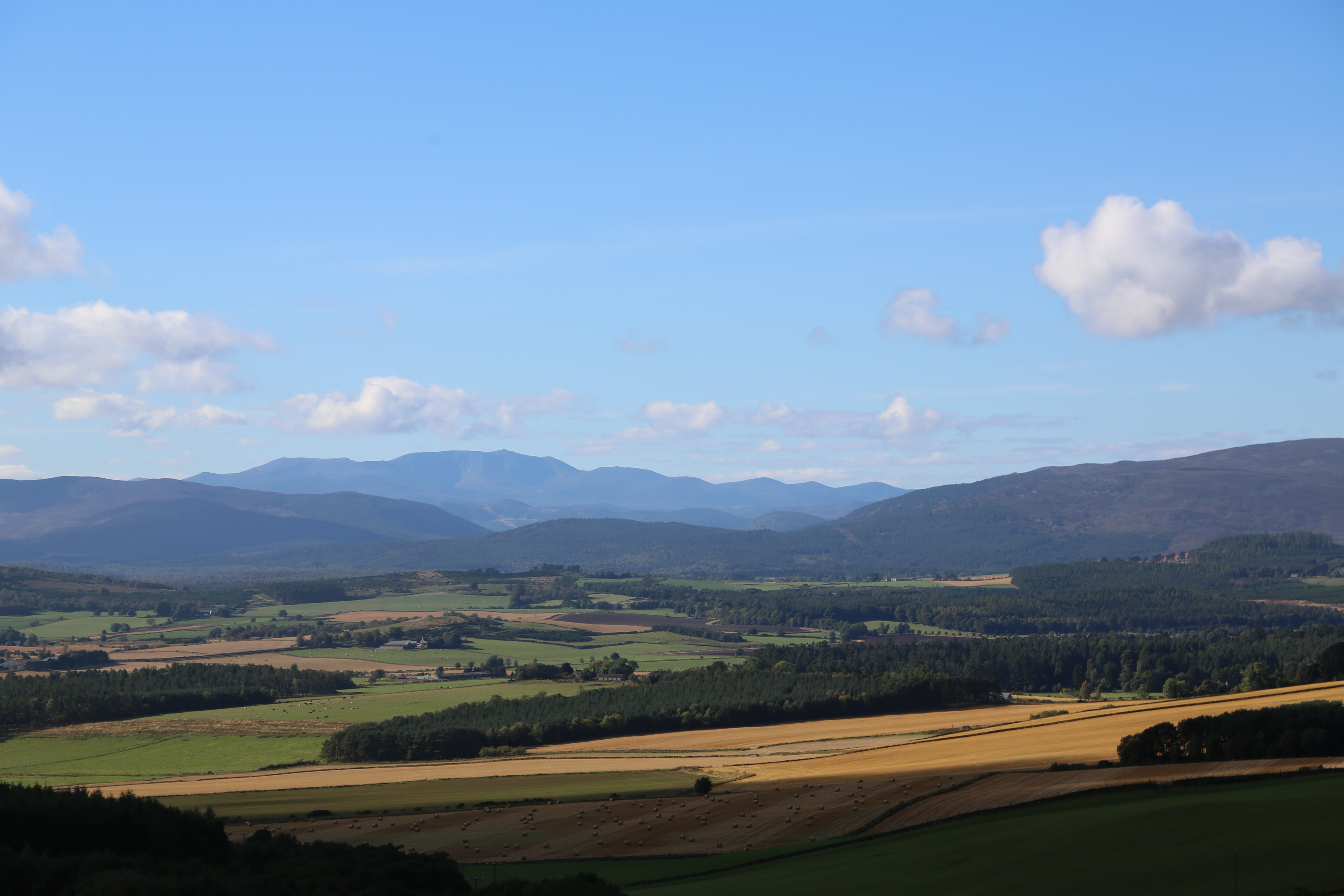 Howe of Cromar from queen's view